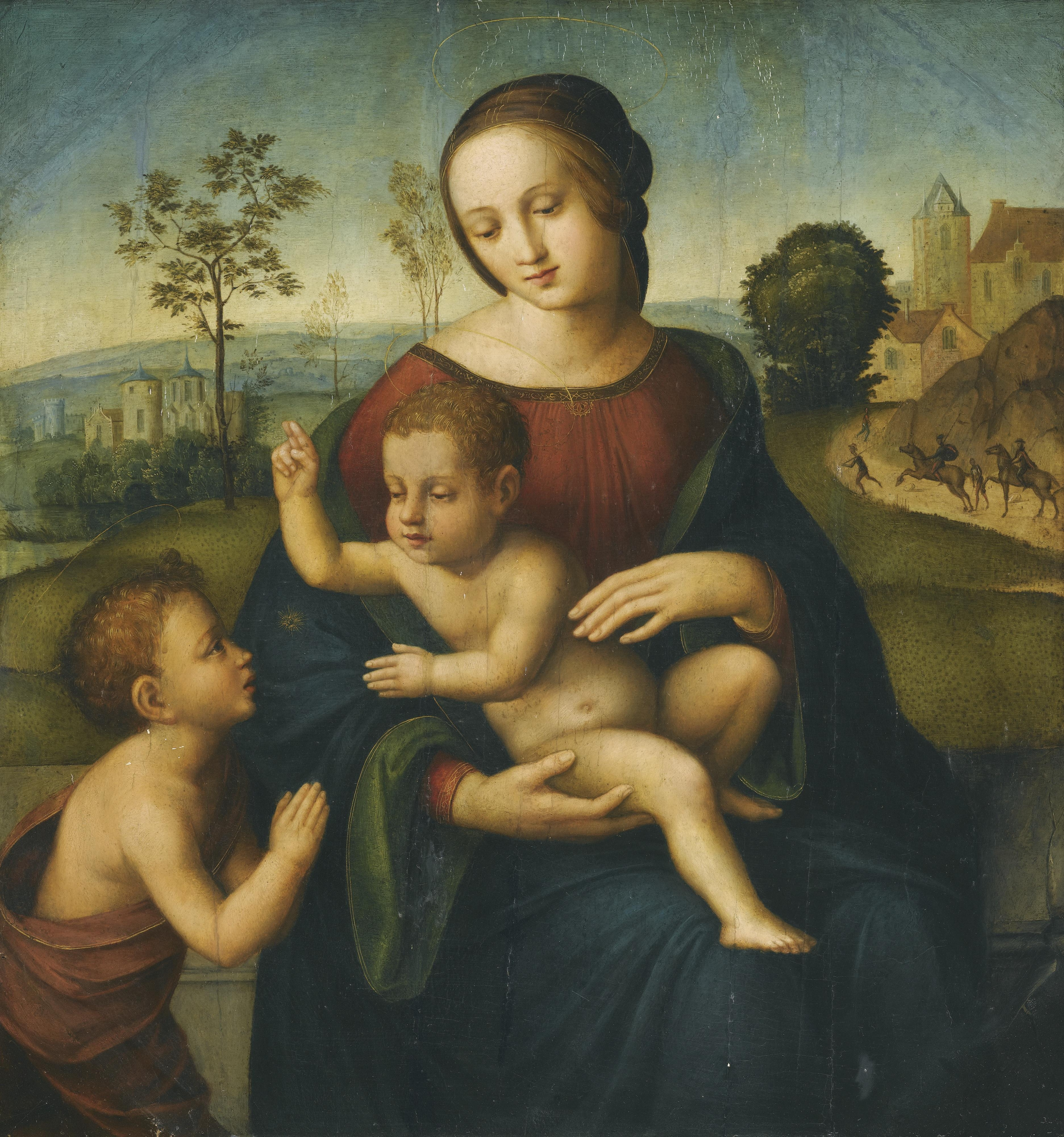 The Madonna and Child with the Infant Saint John the Baptist